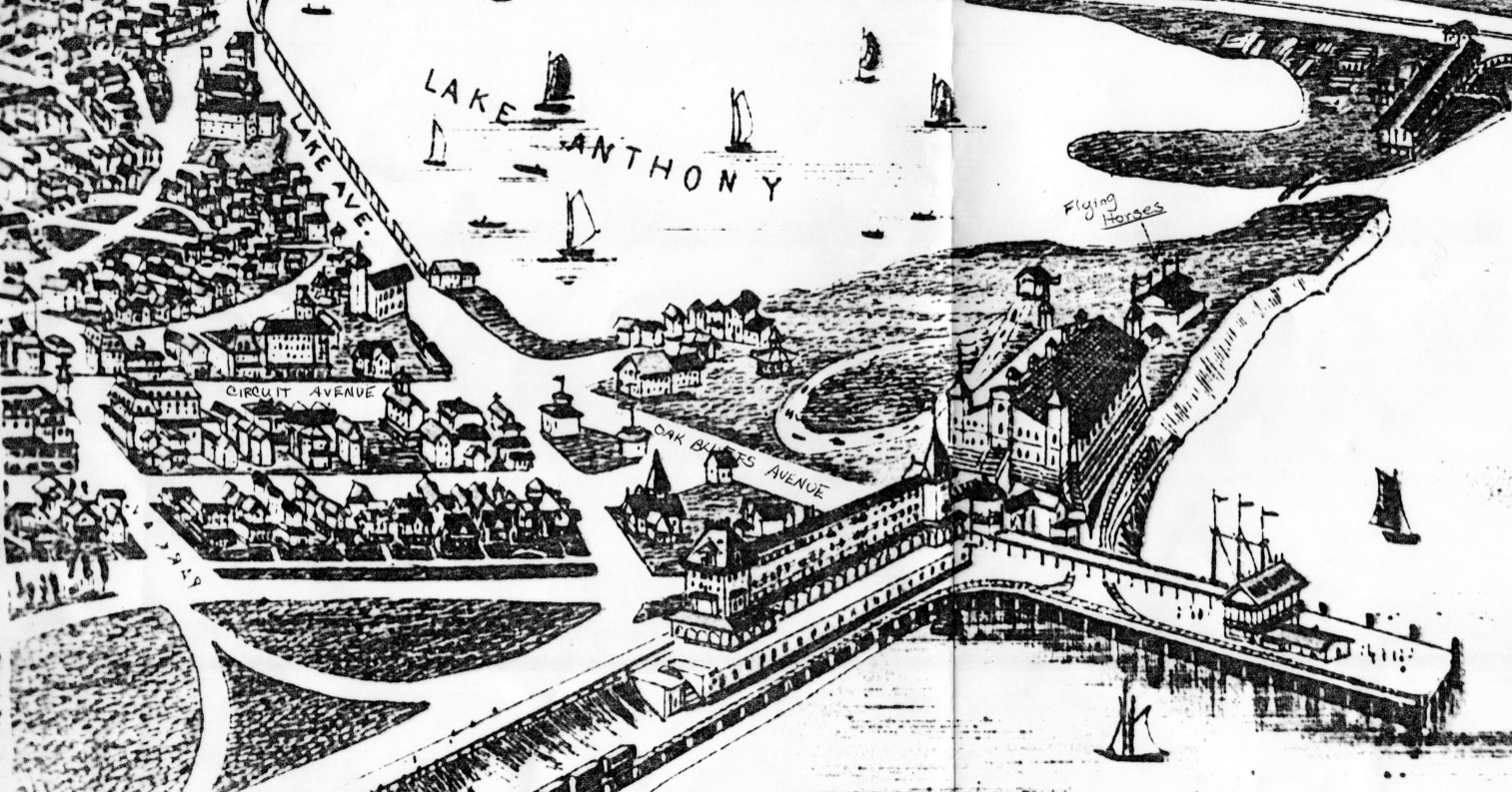 A view of Oak Bluffs, Massachusetts, in the 1880s. Wesleyan Grove is visible on the left, and the main wharf is on the lower right. The Flying Horses Carousel is located, not at its modern location on Circuit Ave, but near the opening to Lake Anthony.